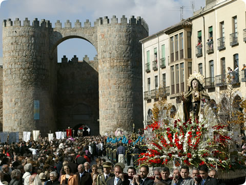 PROCESION SANTA TERESA